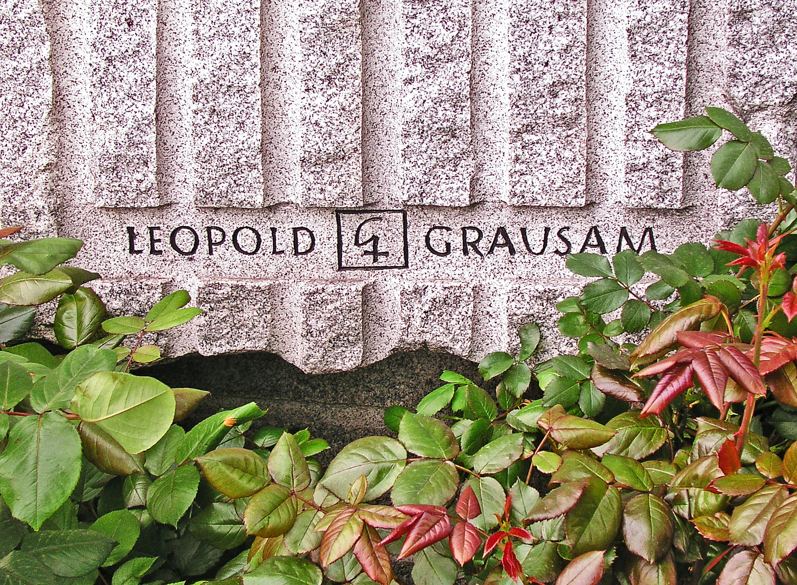 Memorial for the Victims of Gestapo, Vienna, Morzinplatz. Signature of the designer Leopold Grausam